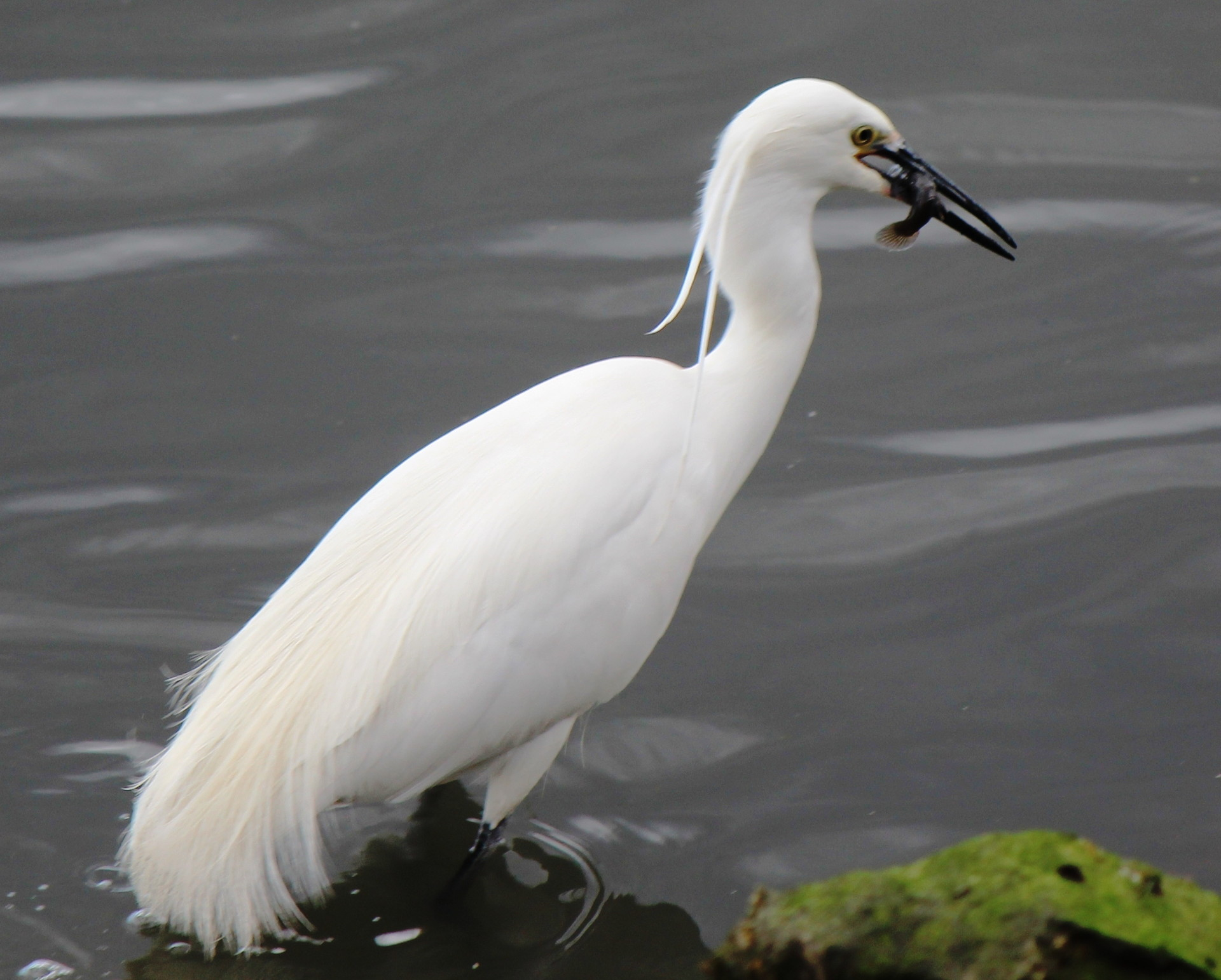 Egretta garzetta (Little Egret ) eating goby (Acanthogobius flavimanus) in Aichi Prefecture, Japan.